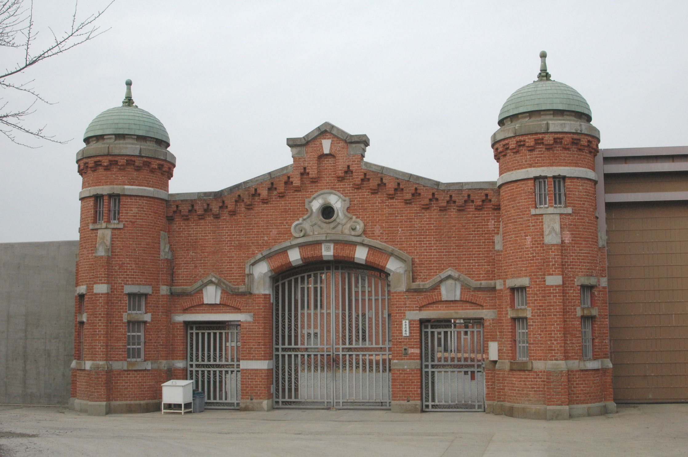 Chiba Prison（Wakaba-ward,Chiba City,Japan / Designed by Keijiro Yamashita) built in 1907